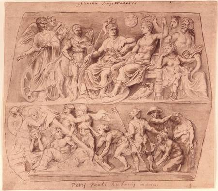 BBC211034 Drawing of the Gemma Augustea (pen & ink and pencil on paper) by Rubens, Peter Paul (1577-1640) pen and ink and pencil on paper Lubeck Museum, Germany Flemish, out of copyright